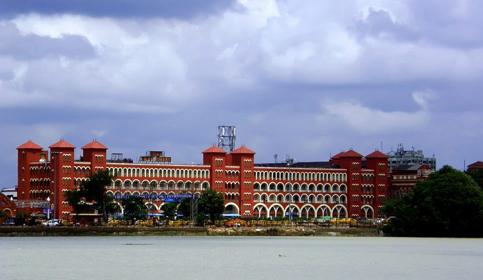 a view of Howrah Station from a boat on Hoogly River